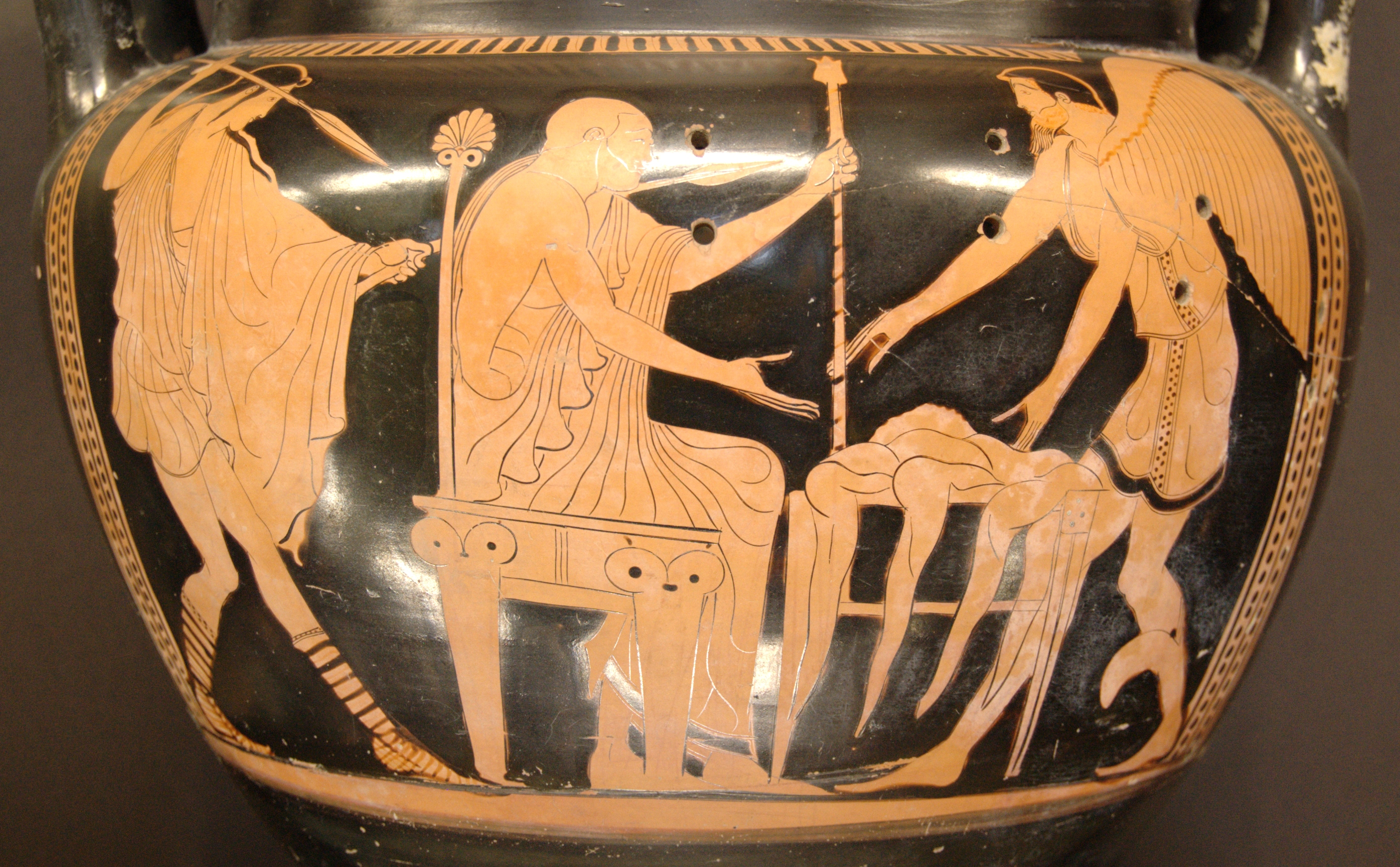 The winged Boreads (left and right) rescuing Phineas (seated) from the Harpies. Side A from an Attic red-figure column-krater, ca. 460 BC. From Altamura.